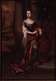 Diana de Vere, later Beauclerk; photographer unknown but since this is a faithful reproduction of uncopyrighted art, that is irrelevant.